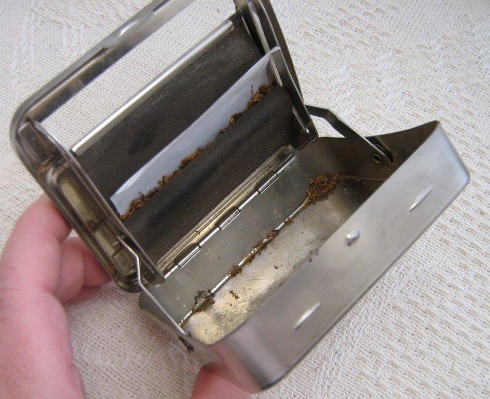 a rolling machine while being closed